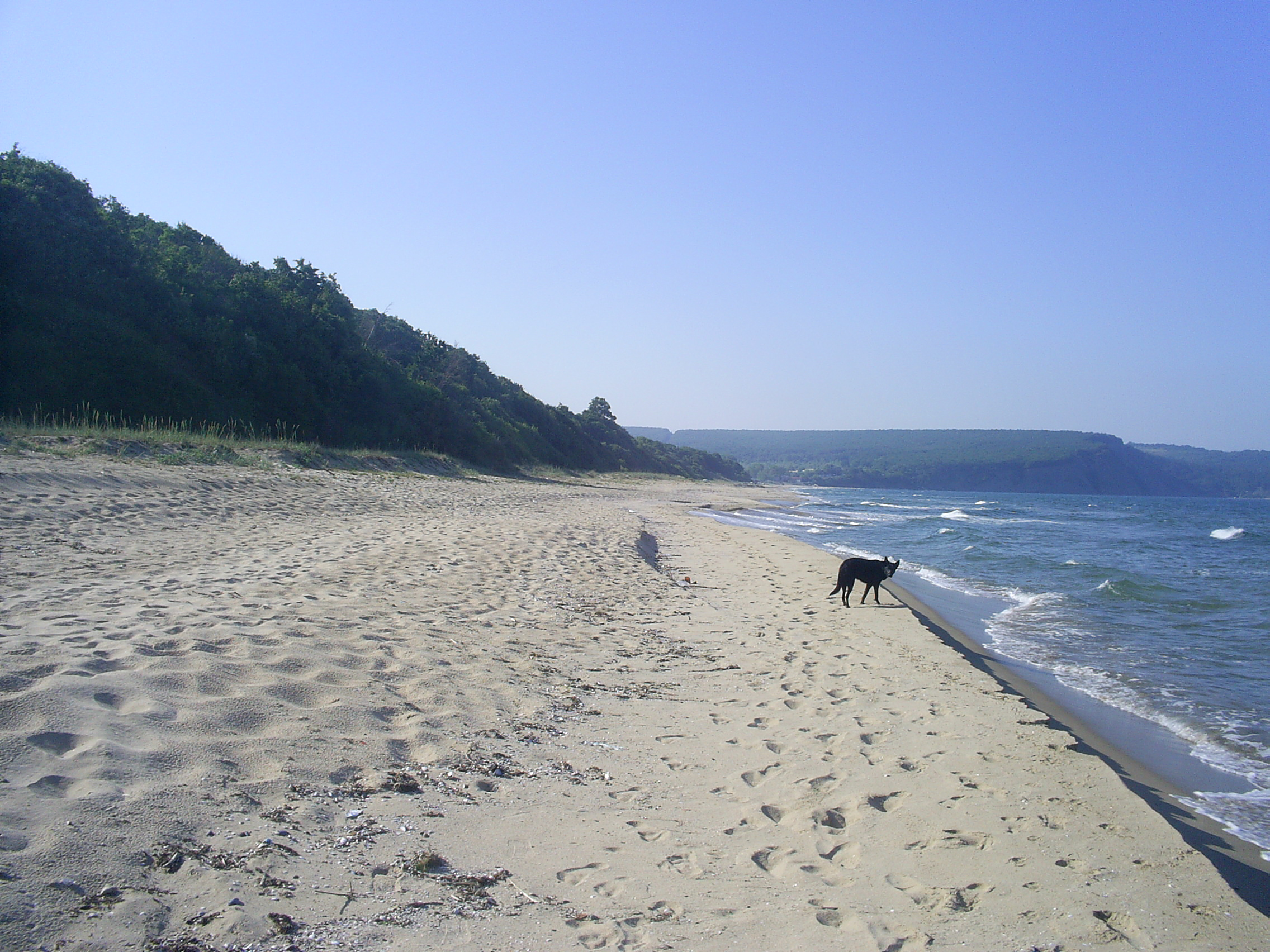 View to Irakli, Bulgaria, before the start of the touristic season